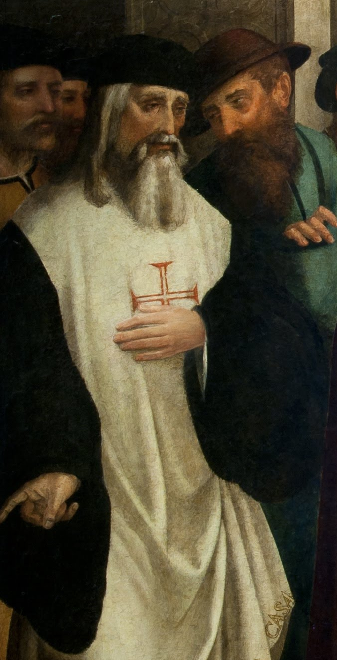 "Wedding of Saint Alexis" (1541), by Garcia Fernandes. This painting was, for a long time, identified as featuring the third marriage of King Manuel I of Portugal with Eleanor of Austria.